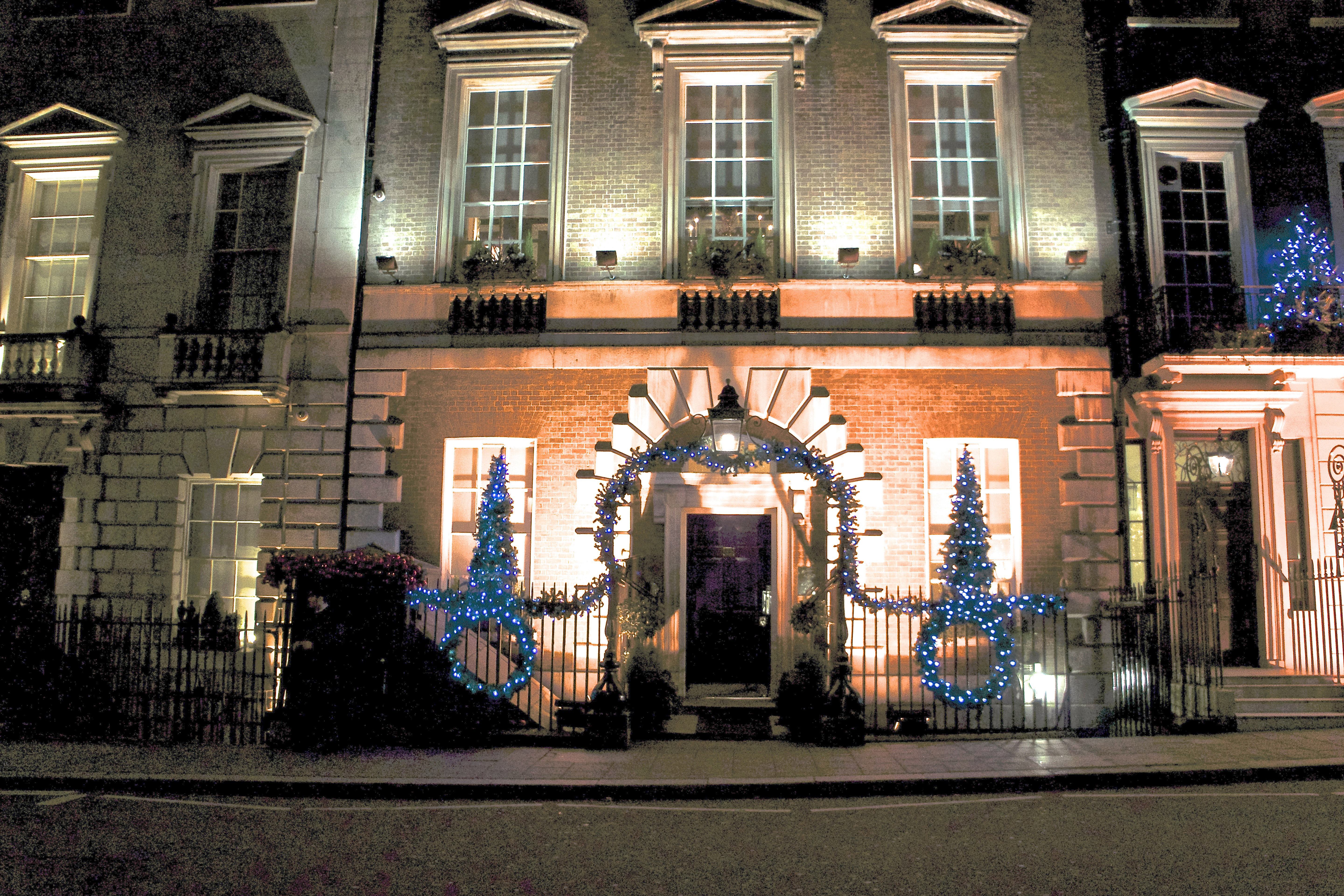 One of London's most exclusive private clubs.